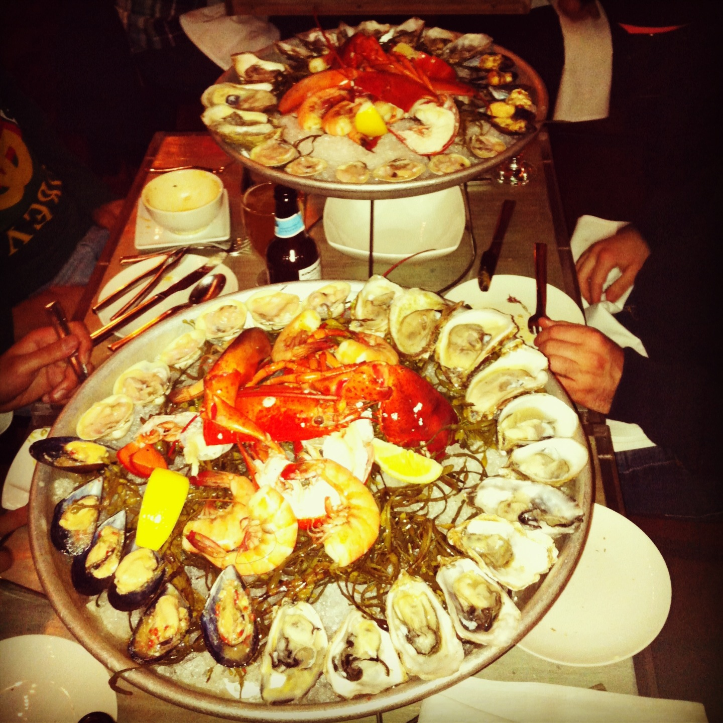 Delicious and beautiful Shellfish Platters from Bar Crudo on Divisidero Street in San Francisco, California